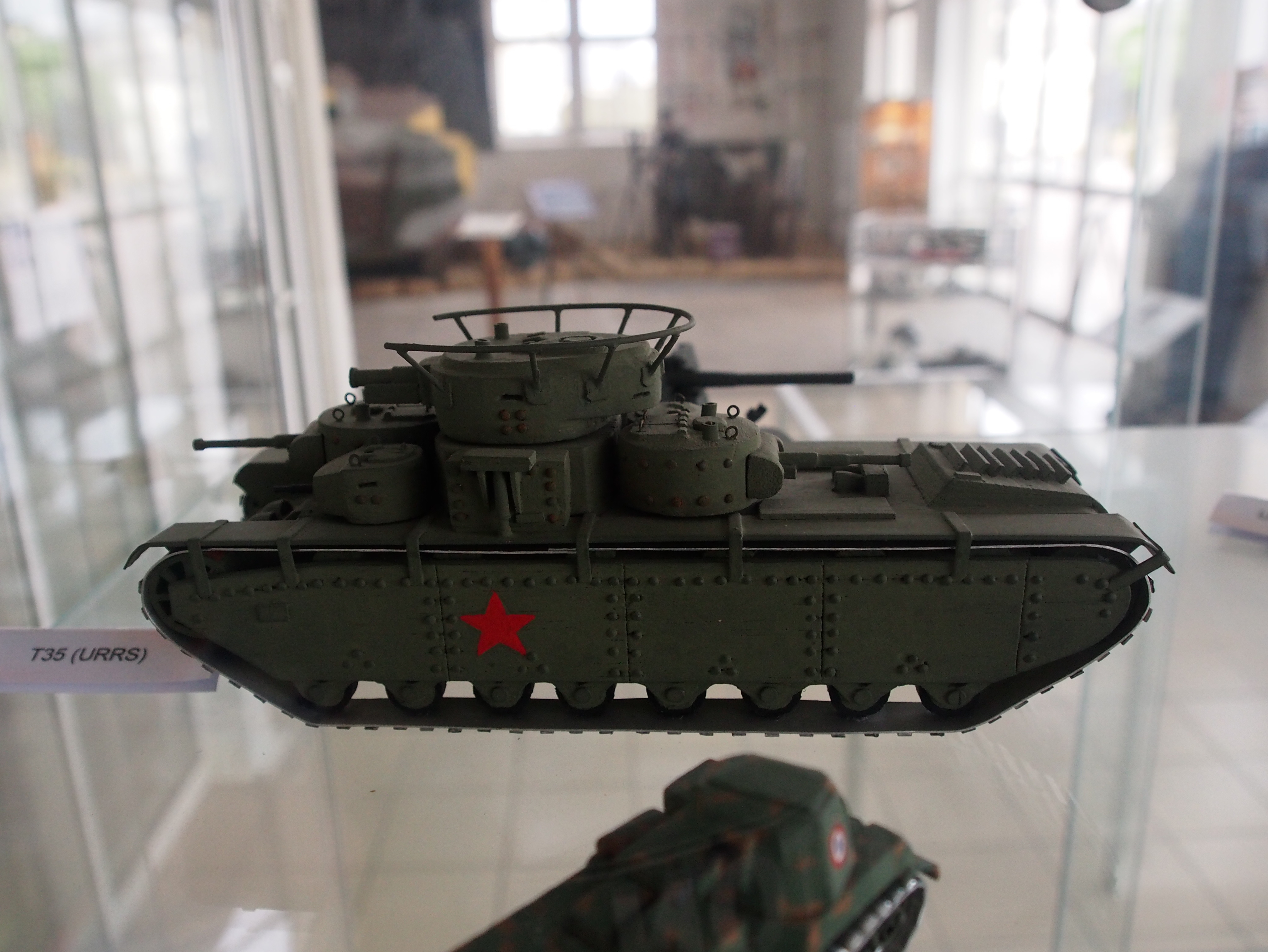 Photographed in the Musée des Blindés, France.